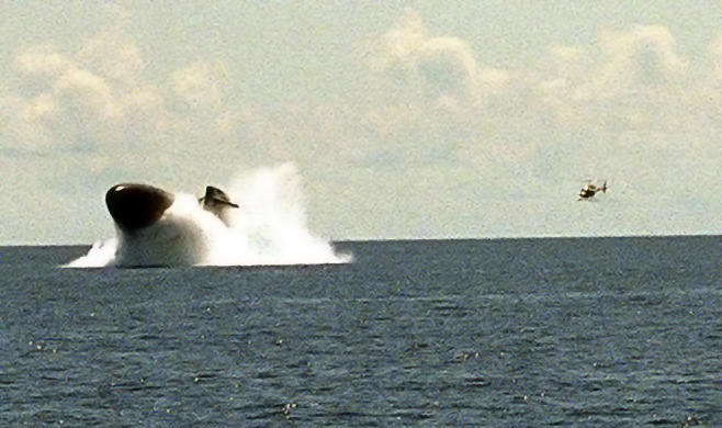 The nuclear-powered attack submarine USS PITTSBURGH (SSN-720) surfaces off the coast of Andros, Bahamas as part of an emergency surface drill.